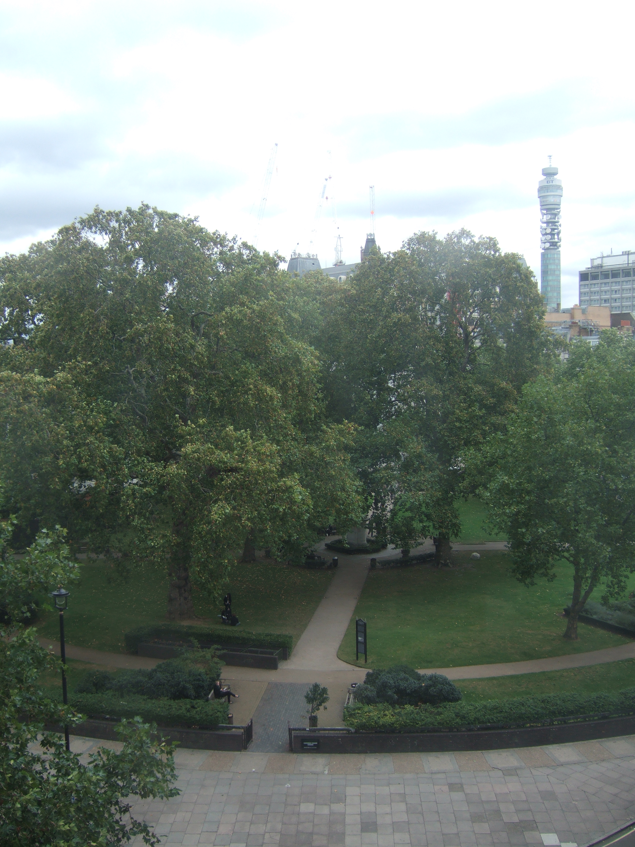 Cavendish Square Photograph taken from a window of John Lewis